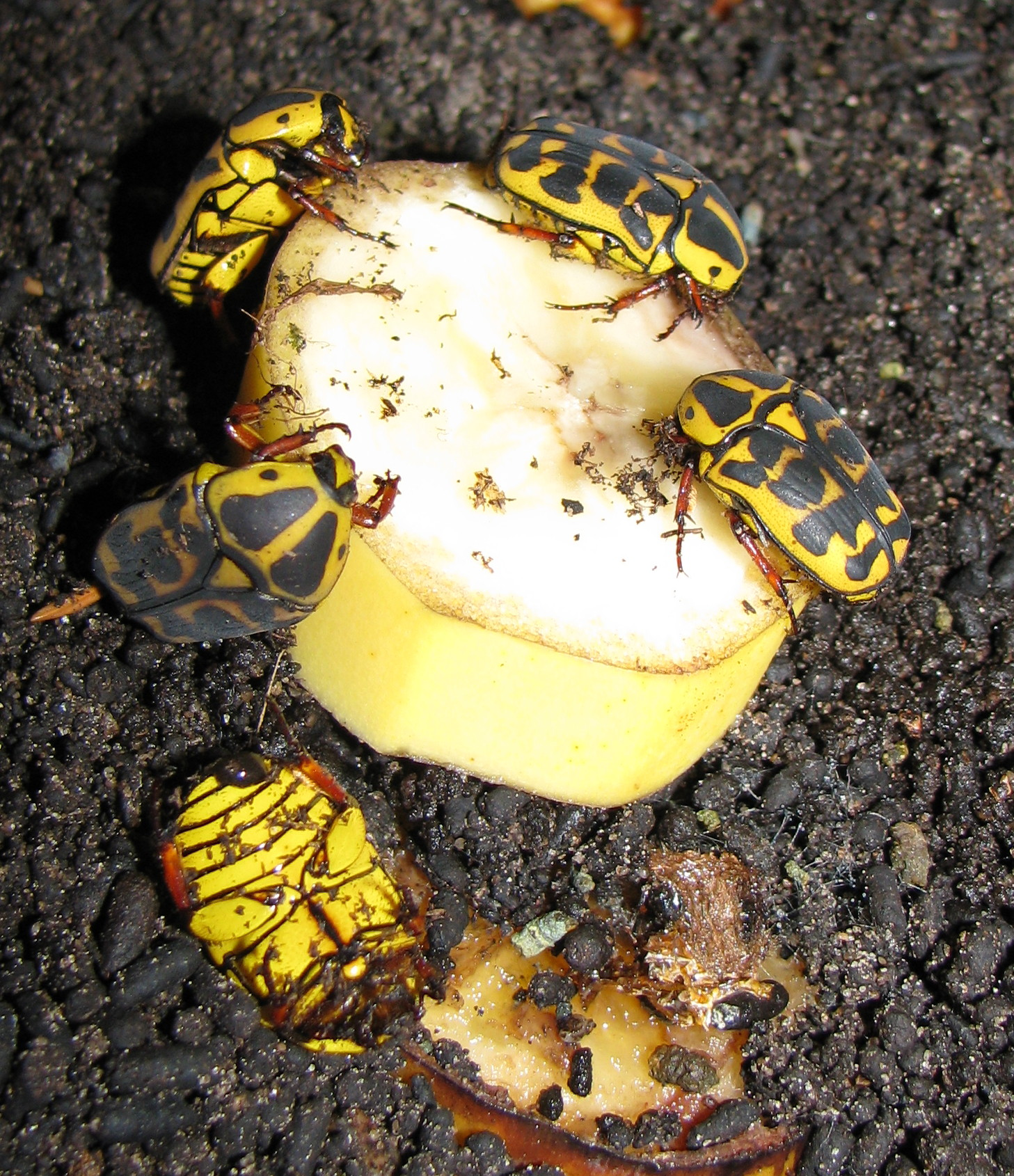 Pachnoda cordata from Tansania